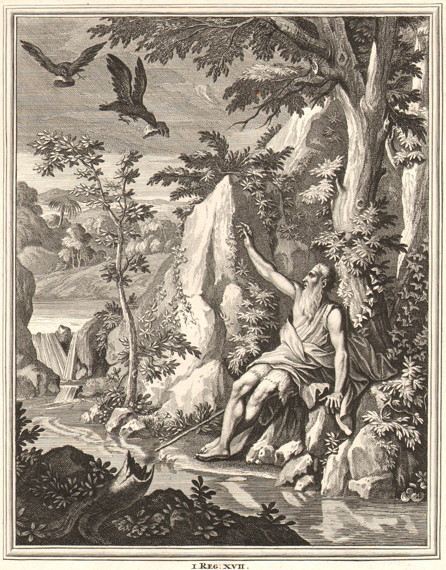 1697 Jan Luyken (1649-1712), Elijah Fed by Ravens, Etching, 1697, 31X21 cm.